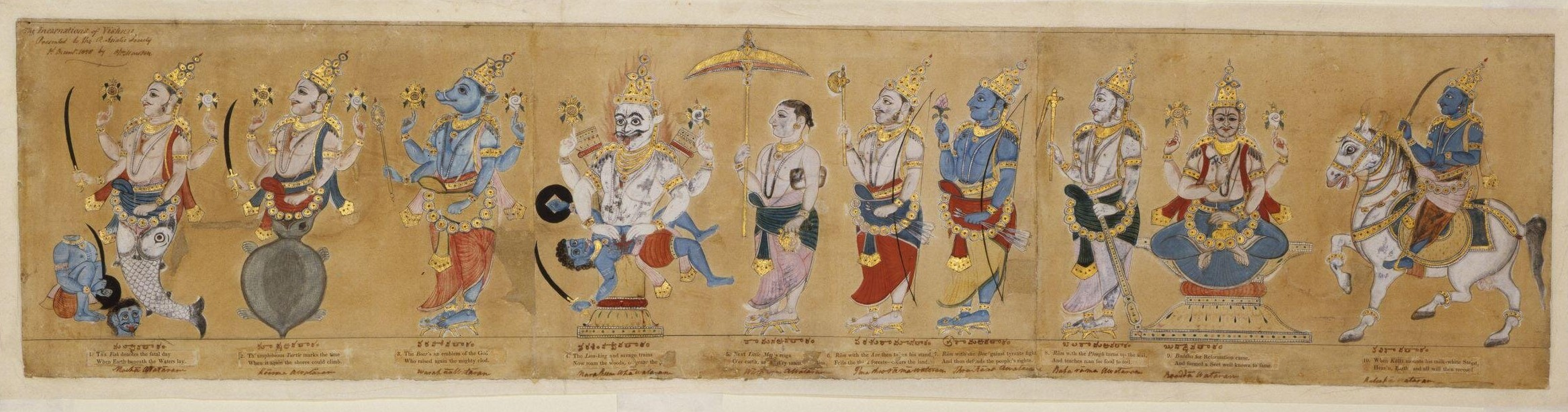 Dasavatar, Andhra Pradesh, 19th century. India. (Combined version of two pieces of a scroll painting. Enhanced, corrected and joined using Photoshop 7) Watercolour and gold on paper. From left: Matsya, Kurma, Varaha, Narasimha, Vamana, Parashurama, Rama, Balarama, Krishna, Kalki. "Marks and inscriptions '1. The Fish denotes the fatal day / When Earth beneath the Waters lay. / Macha Awataram' The fish incarnation of Vishnu (Matsya avatara) '2. Th'amphibious Turtle marks the time / When it again the shores could climb. / Koorma Awataram.' The turtle incarnation of Vishnu (Kurma avatara) '3. The Boar's an emblem of the God / Who raised again the mighty clod. / Waraha Awataram' The boar incarnation of Vishnu (Varaha avatara) '4. The Lion-king and savage trains / Now roam the woods, o[r] graze the [plains]. / Narasheem Awataram' The man-lion incarnation of Vishnu (Narasimha avatara) '5. Next [came the] Little Man's reign / Oe'r earth an[d wa]try' main / Wamana Awataram' The dward incarnation of Vishnu (Vamana avatara) '6. Ram with the Axe then takes his stand, / Fells the thick forests - clears the land. / Parasurama Awataram' Rama with the Axe (Parasurama avatara) '7. Ram with the Bow 'gainst tyrants fight[s] / And thus defends the people's rights. / Shreerama Awataram' Rama with the bow (Rama avatara) '8. Ram with the Plough turns up the soil, / And teaches man for food to toil. / Balarama Awataram' Rama with the Plough (Balarama avatara) '9. Buddha for Reformation came, / And formed a Sect well known to fame. / Boodha Awataram' Vishnu as the Buddha (Buddha avatara). '10. When Kalki mounts his milk white Steed, / Heav'n, Earth, and all will then recede! / Kalkeekawataram' Vishnu as a warrior on a white horse (Kalki avatara)"